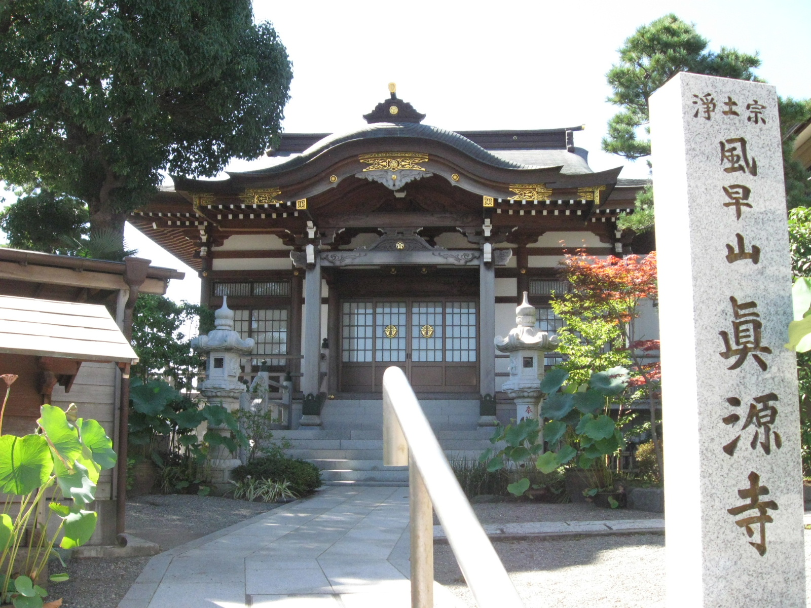 Shingen-ji in Fujisawa City, Kanagawa Prefecture, Japan